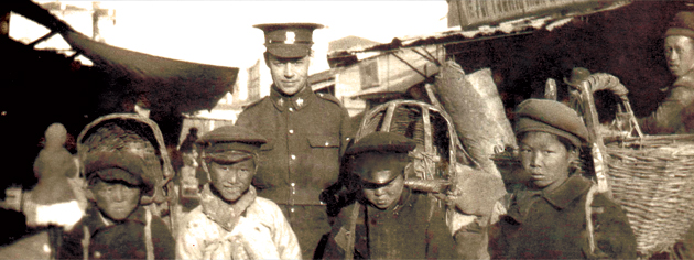 Canadian_Siberian_Expeditionary_Force